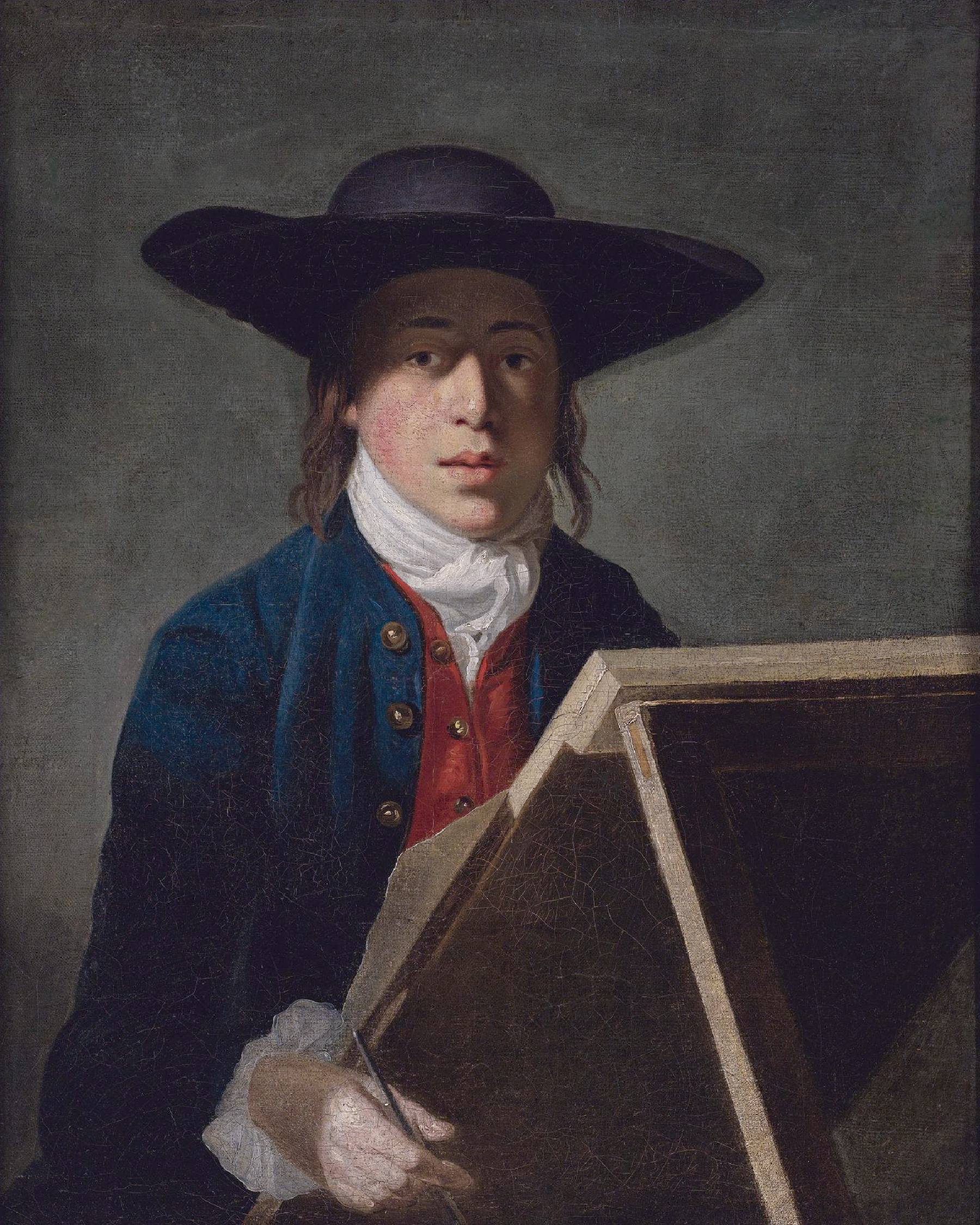 George Morland at an easel